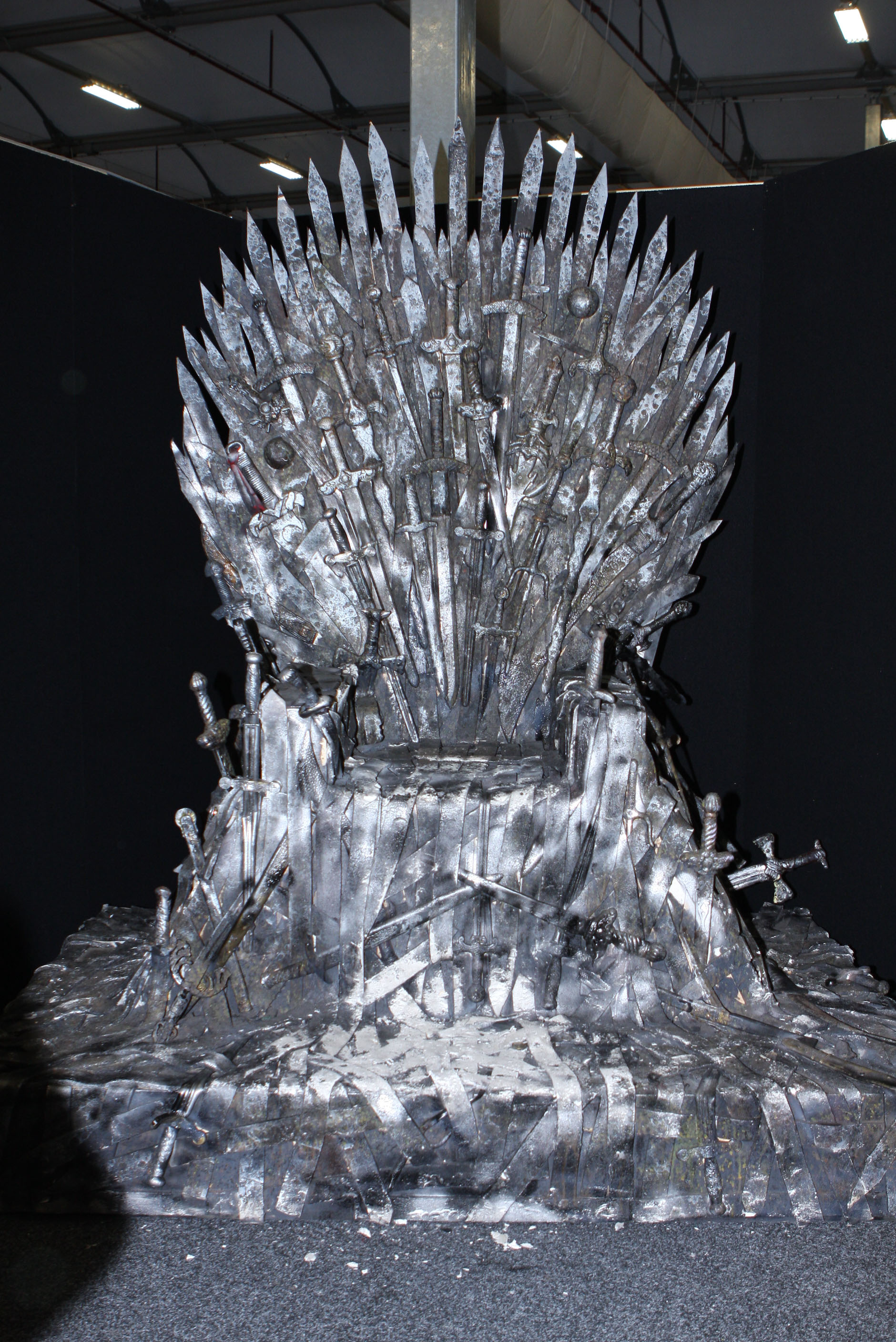 Comic Con in Sydney